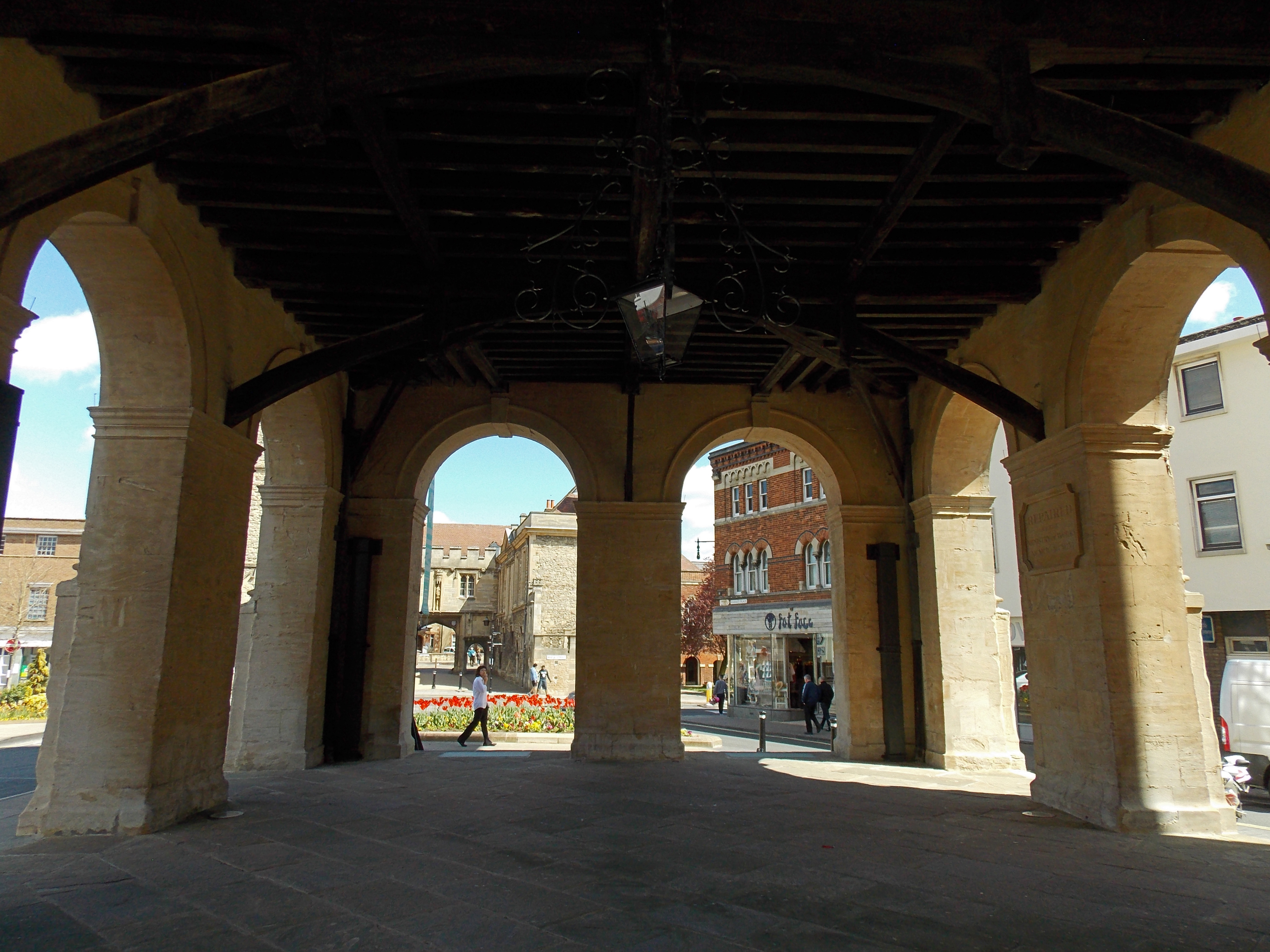 County Hall and Market House, Abingdon, Oxfordshire. Internal view of the loggia, with the Abbey Gate in the background.